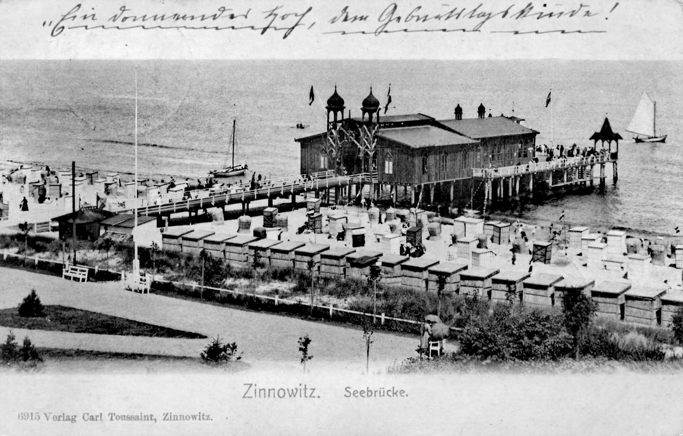 Historical pier of German coastal spa town Zinnowitz, on the Island of Usedom. It was built in 1904. After the war, the GDR government didn't care about Wilhelminian piers at all, so it decayed. After the peaceful revolution in East Germany, Zinnowitz got a new pier, but without the historical pier building getting rebuilt.